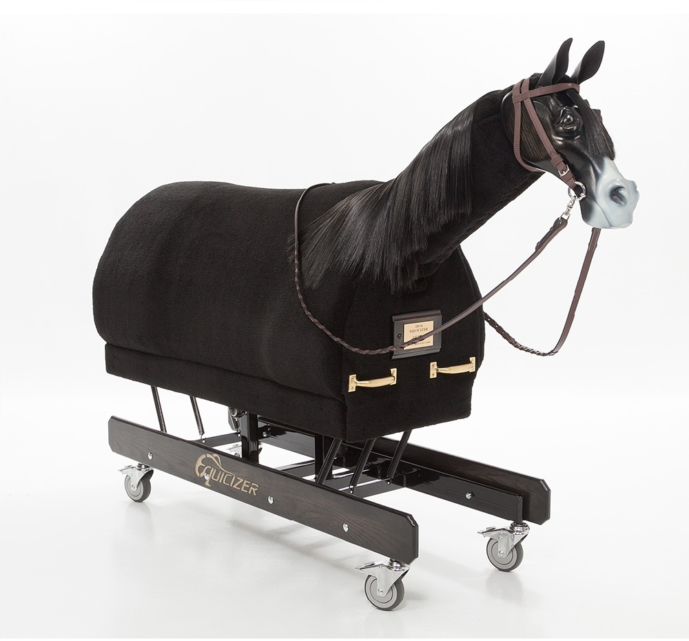 The Equicizer is a non motorized mechanical horse riding simulator that is used by people around the world for exercise, training and therapy.